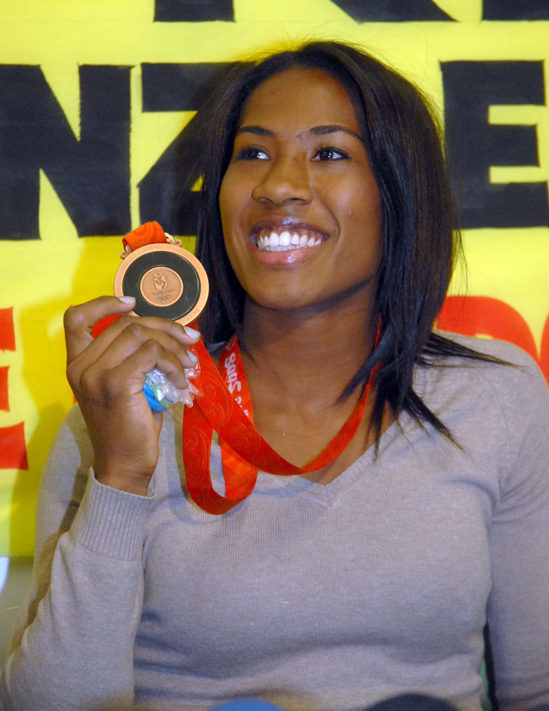 Brazilian judoka Ketleyn Quadros shows her Bronze medal won at 2008 Summer Olympics.